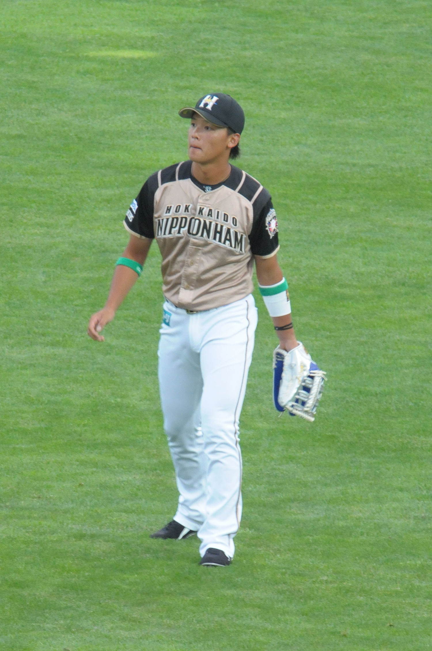 Shingo Ishikawa, outfielder of the Hokkaido Nippon-Ham Fighters, at Akita Prefectural Baseball Stadium.